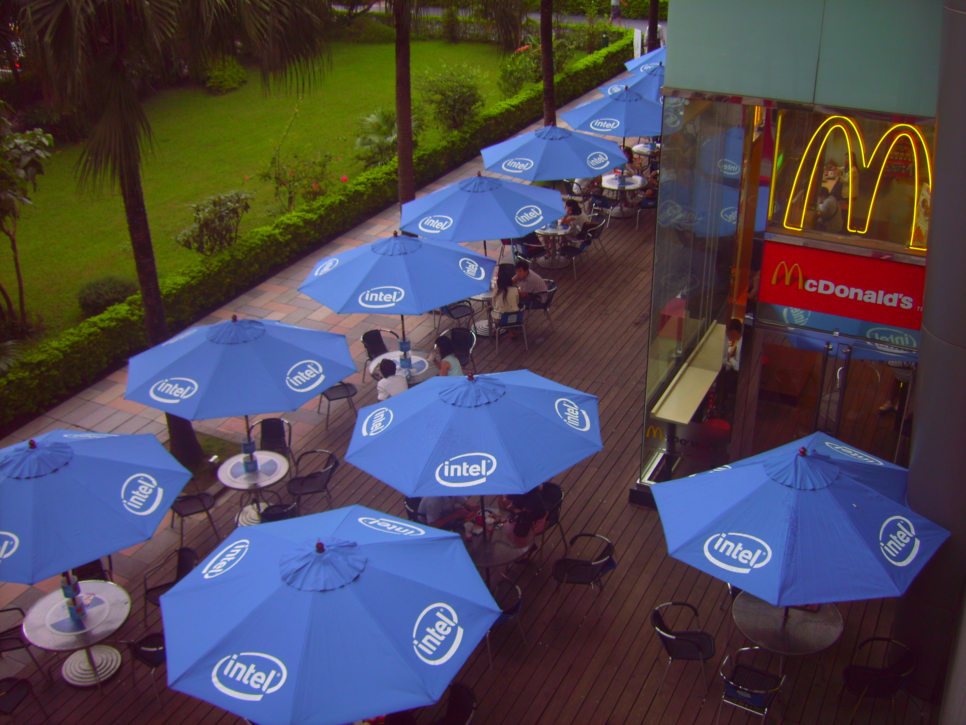 2007 COMPUTEX Taipei: Intel Umbrellas at McDonald in NYNY Department Store in Taiwan.